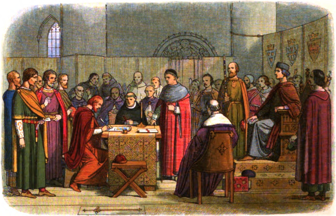 Edward I is acknowledged as the suzerain of Scotland.